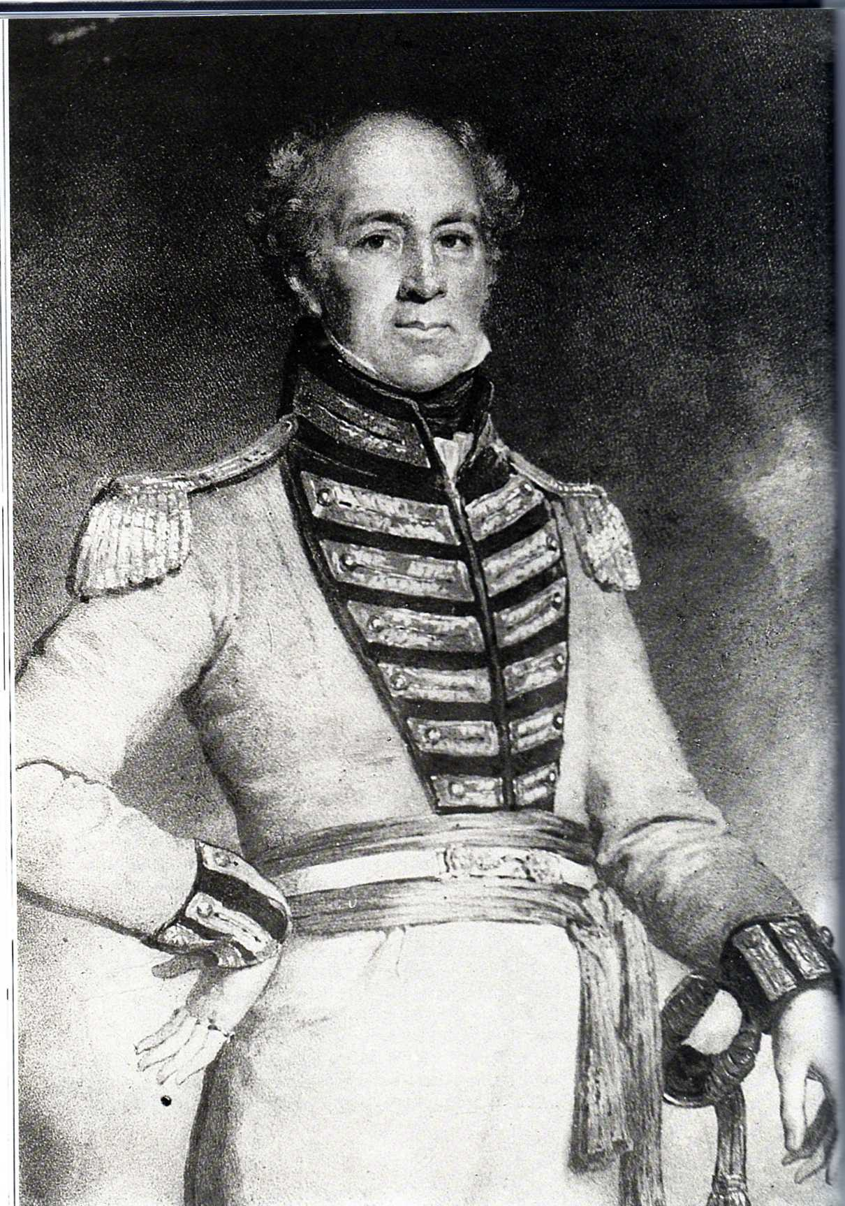 Colonel (later Major-General) William Farquhar (26 February 1774 – 13 May 1839), an employee of the British East India Company, and the first Resident of colonial Singapore (6 February 1819 – 1 May 1823).